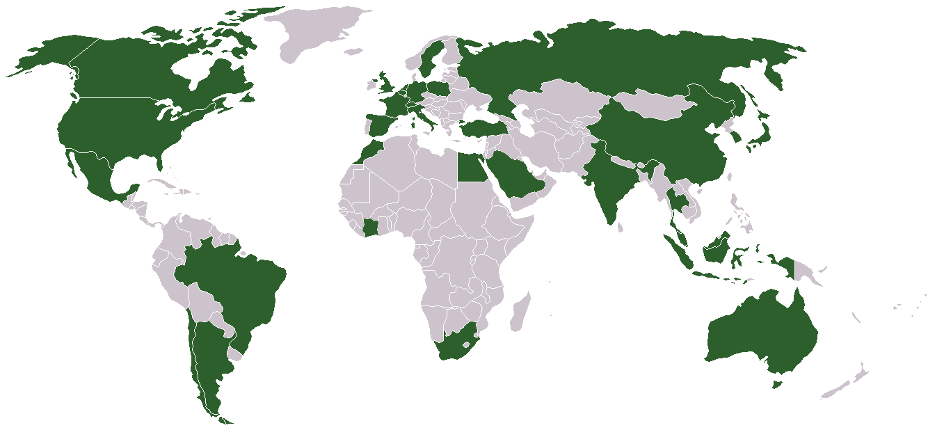 Uploaded from the english Wikipedia